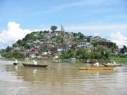 Picture of the island of Janitzio personal photo